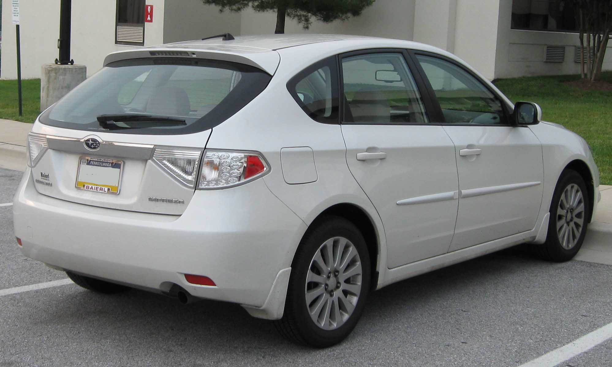 2008 Subaru Impreza photographed in College Park, Maryland, USA.